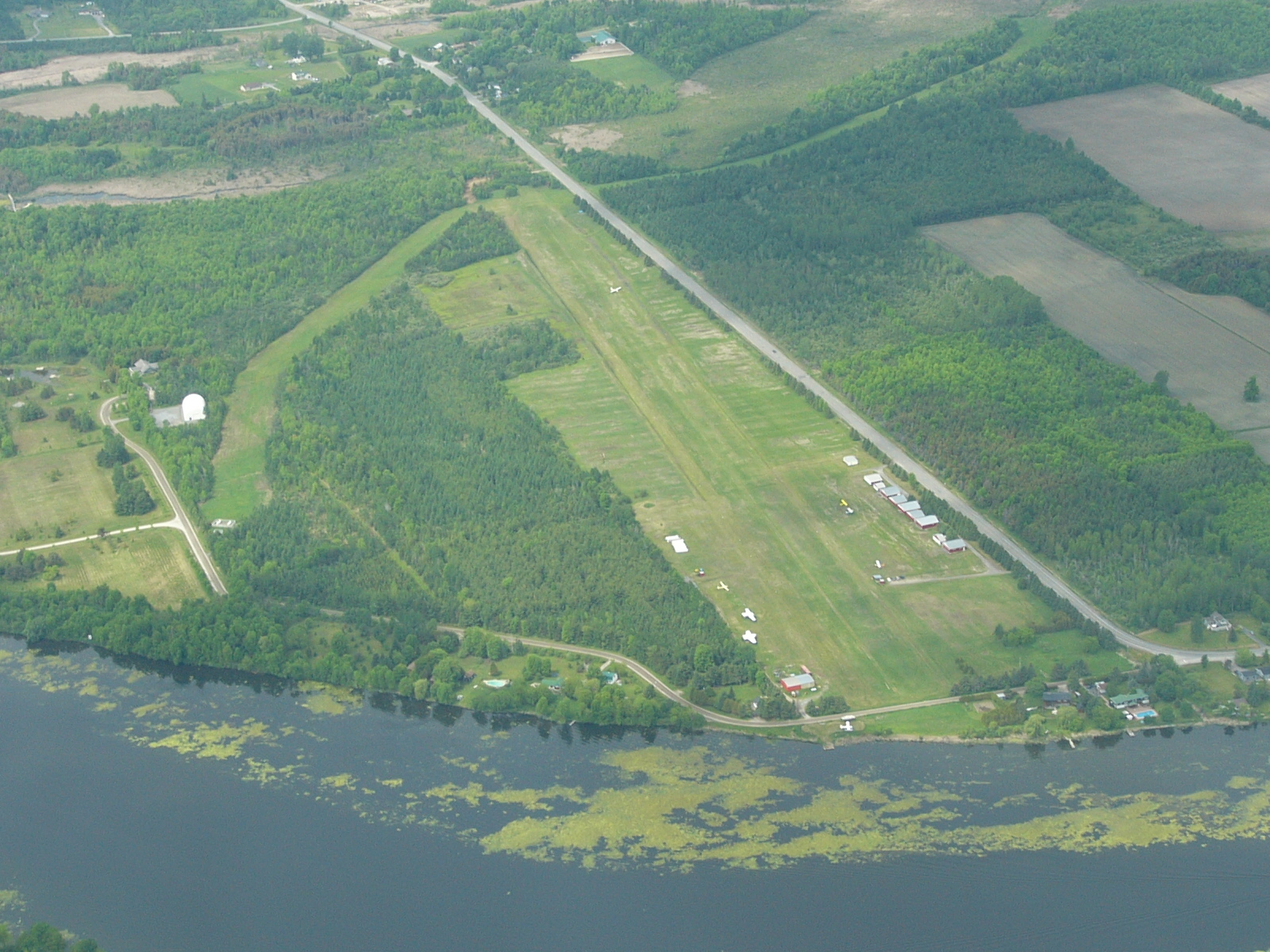 Kars/Rideau Valley Air Park looking west-northwest